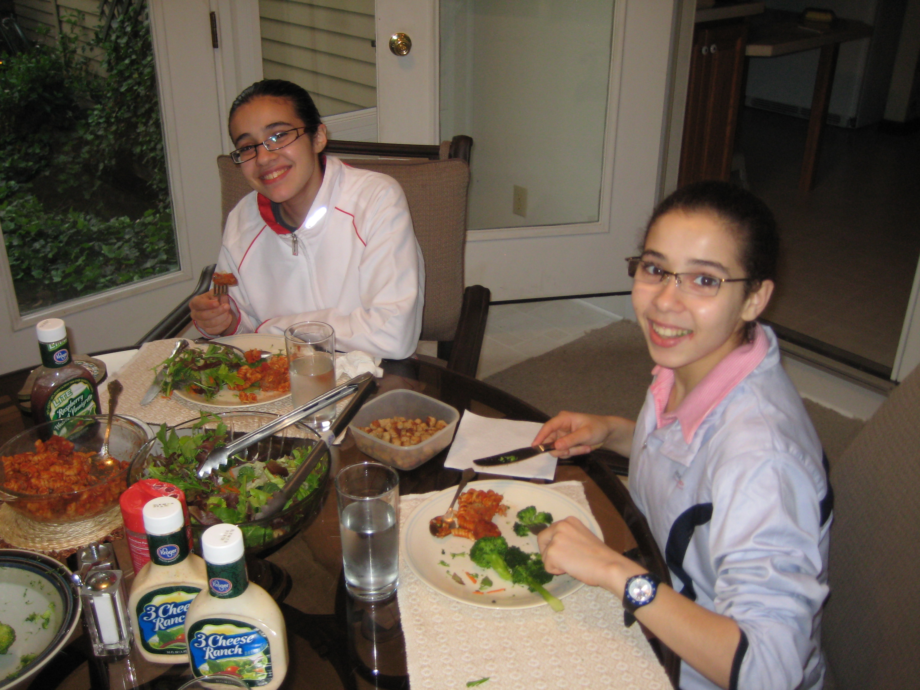 Squash players: Heba (left) & Nouran El Torky.